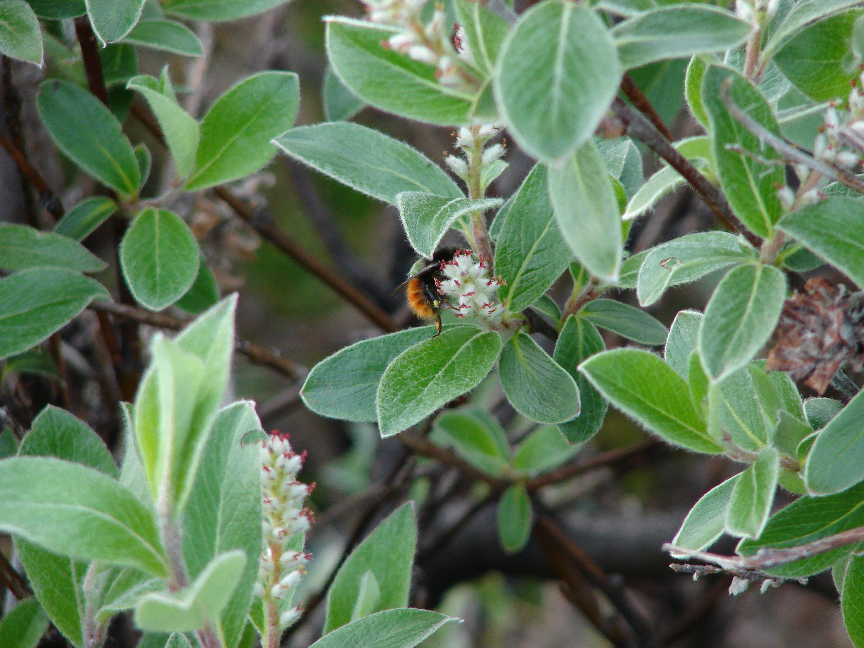 Salix glauca female Norwegian: sølvvier (ho)